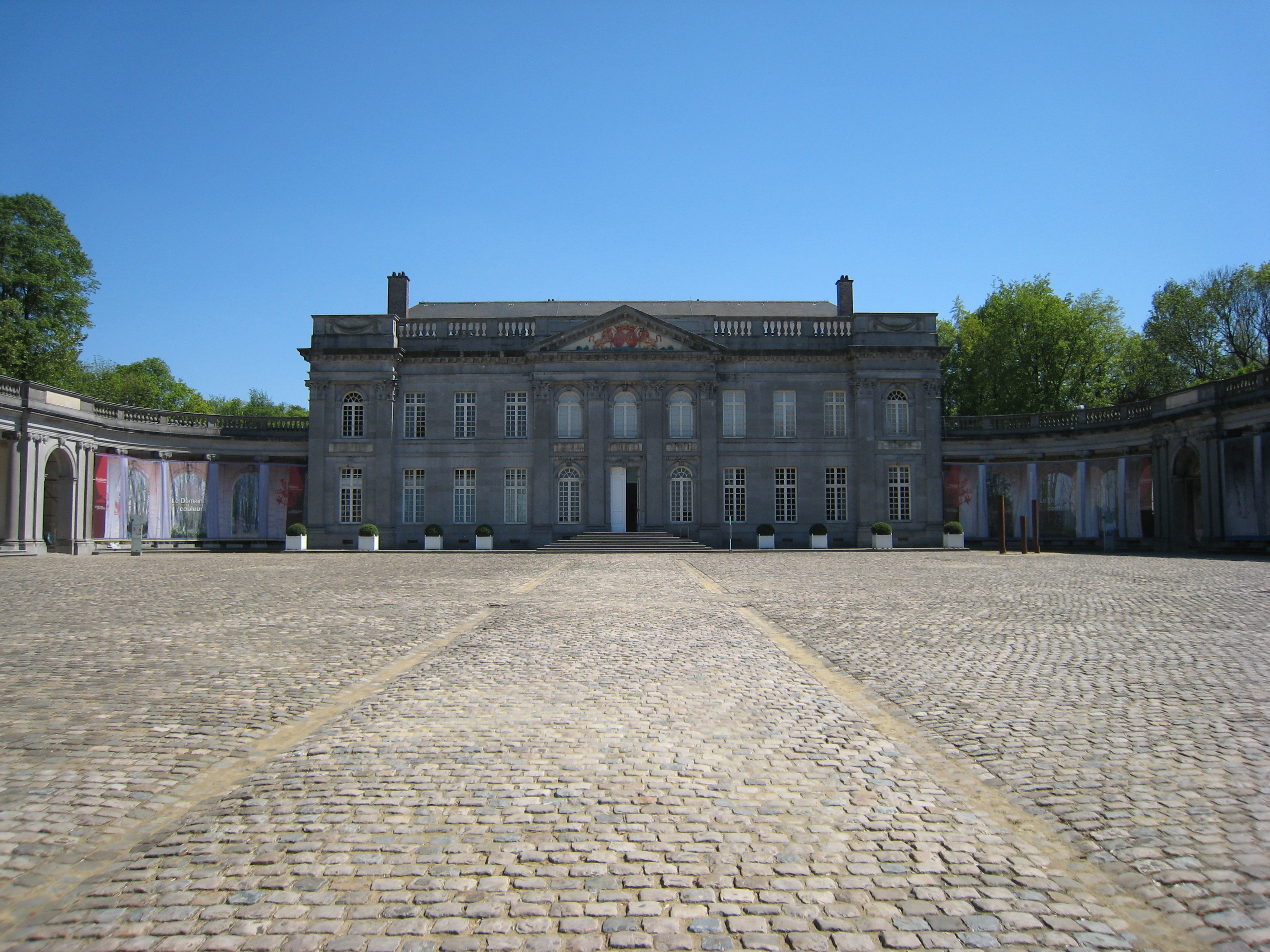 Facade of the Château de Seneffe